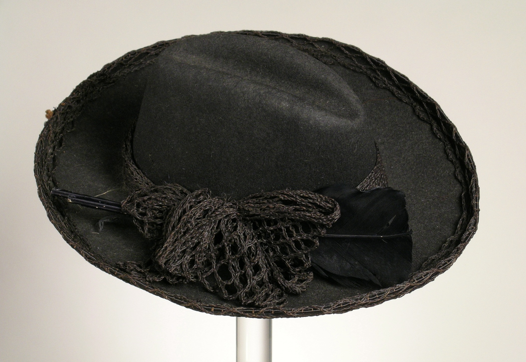 United States, Pennsylvania, Philadelphia, 1896 Costumes; Accessories Fur felt, feathers Gift of Mrs. Margaret Elm Bryner (41.11.15) Costume and Textiles